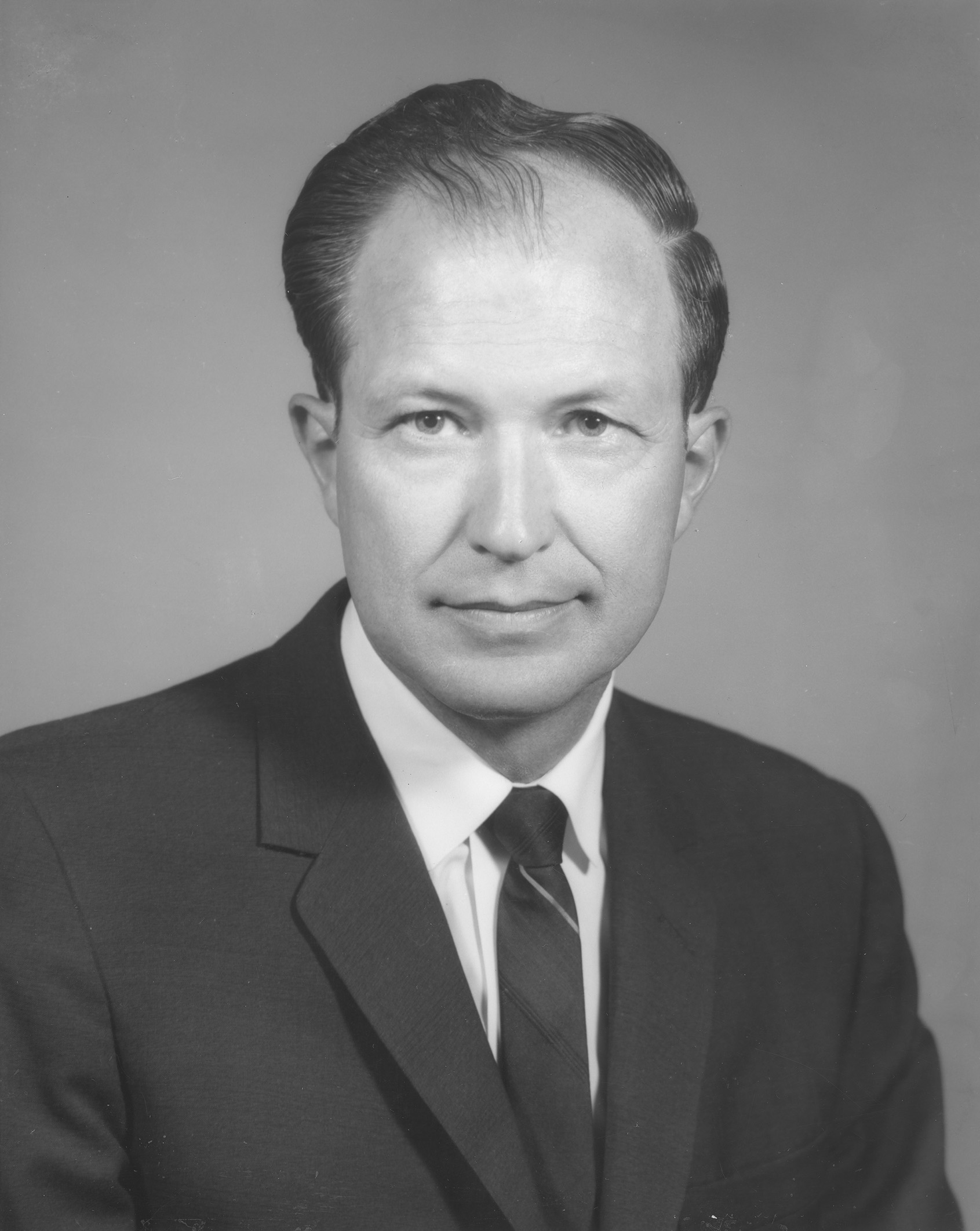 Jack Woolf, president of Arlington State College, 1959-1968.